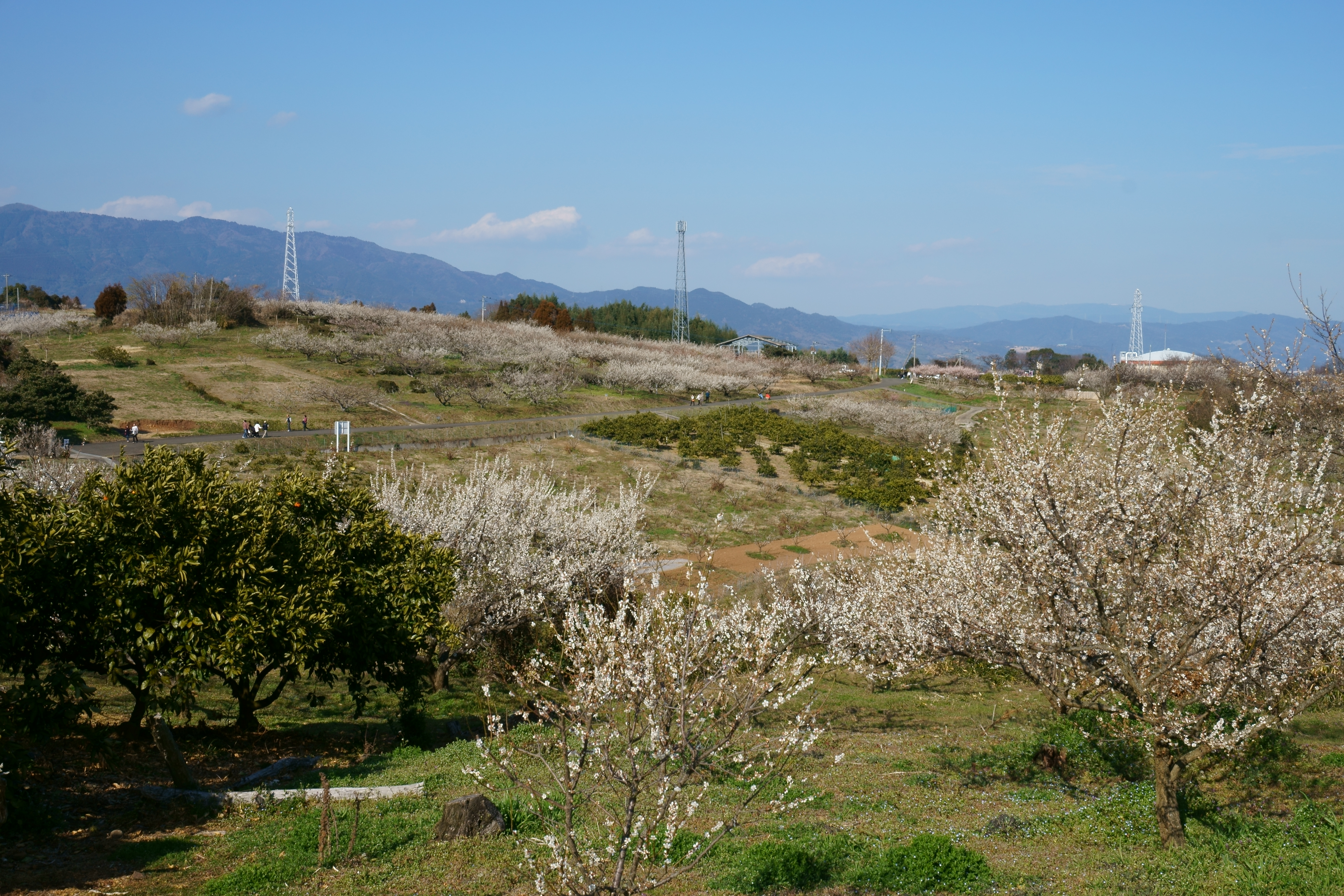 Plum groves(farms) in Ushinoo, Ogi city, Saga prefecture.